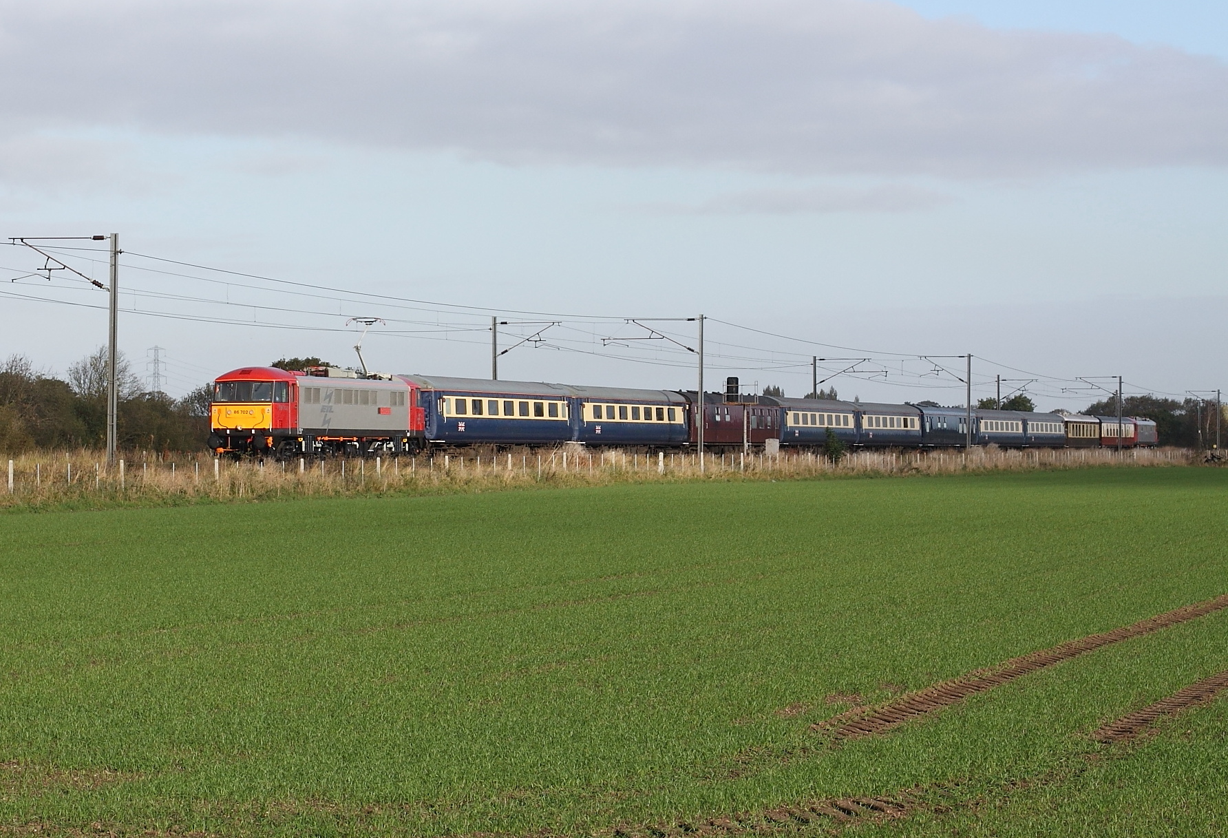 ETL Livery 86702 passes Norwell Crossing working 1Z30 Newcastle - Kings Cross GBRF Charter , 86701 was on the rear of the train.